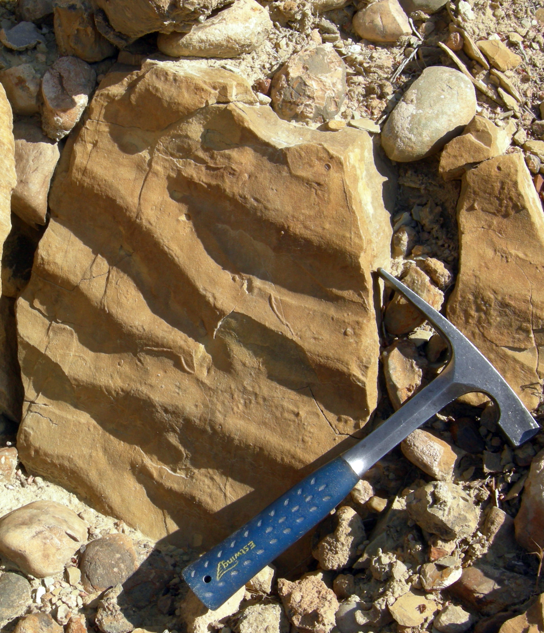 Ripplemarks in a biosparite/grainstone (Carmel Formation, Middle Jurassic, near Gunlock, Utah).